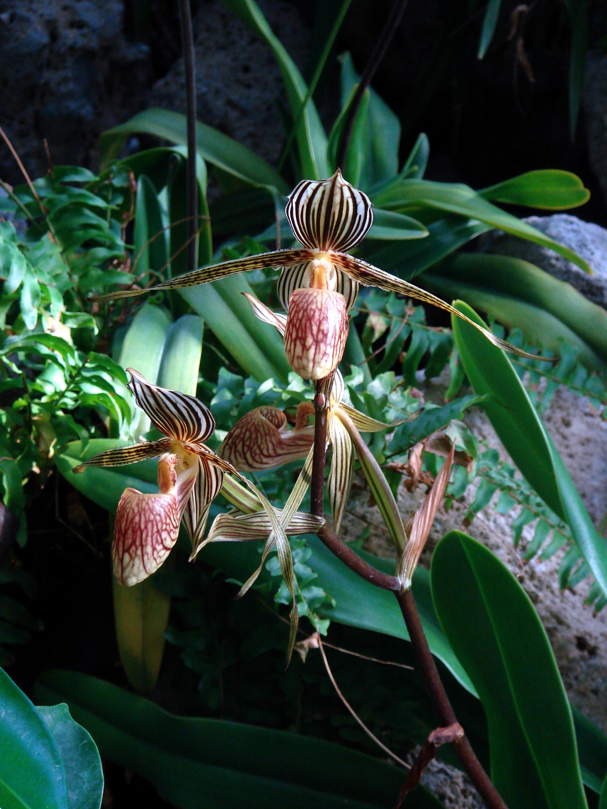 an orchid (probably a Paphiopedilum - Cultivar)